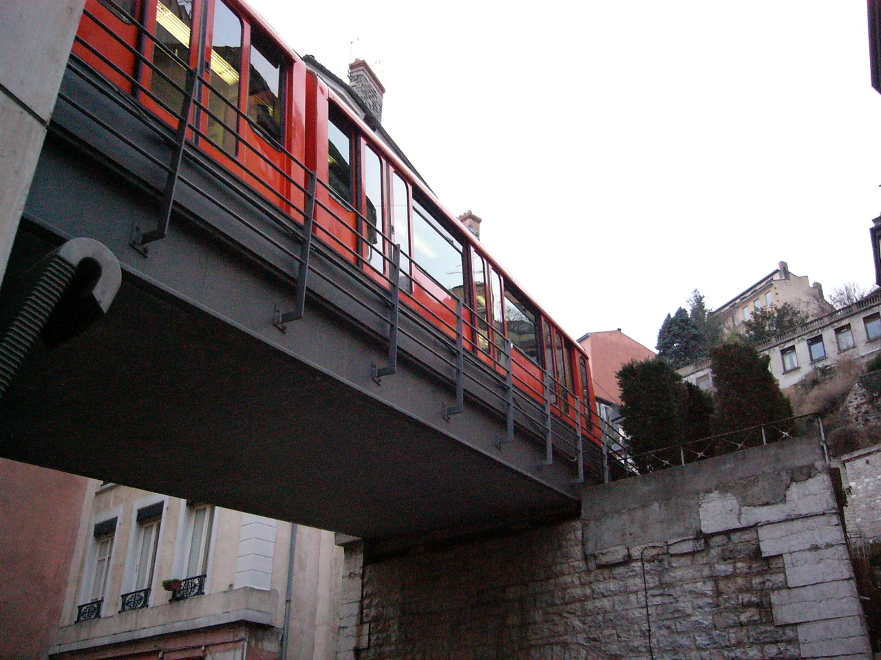 Funicular railway St. Jean - St. Just in Lyon (France) just behind the St. Jean station. The orange railcar has the same color as the métros C and D, which differs from the white-with-red-stripes on all of Lyon's buses, métro A and B and the Fourvière Funicular.